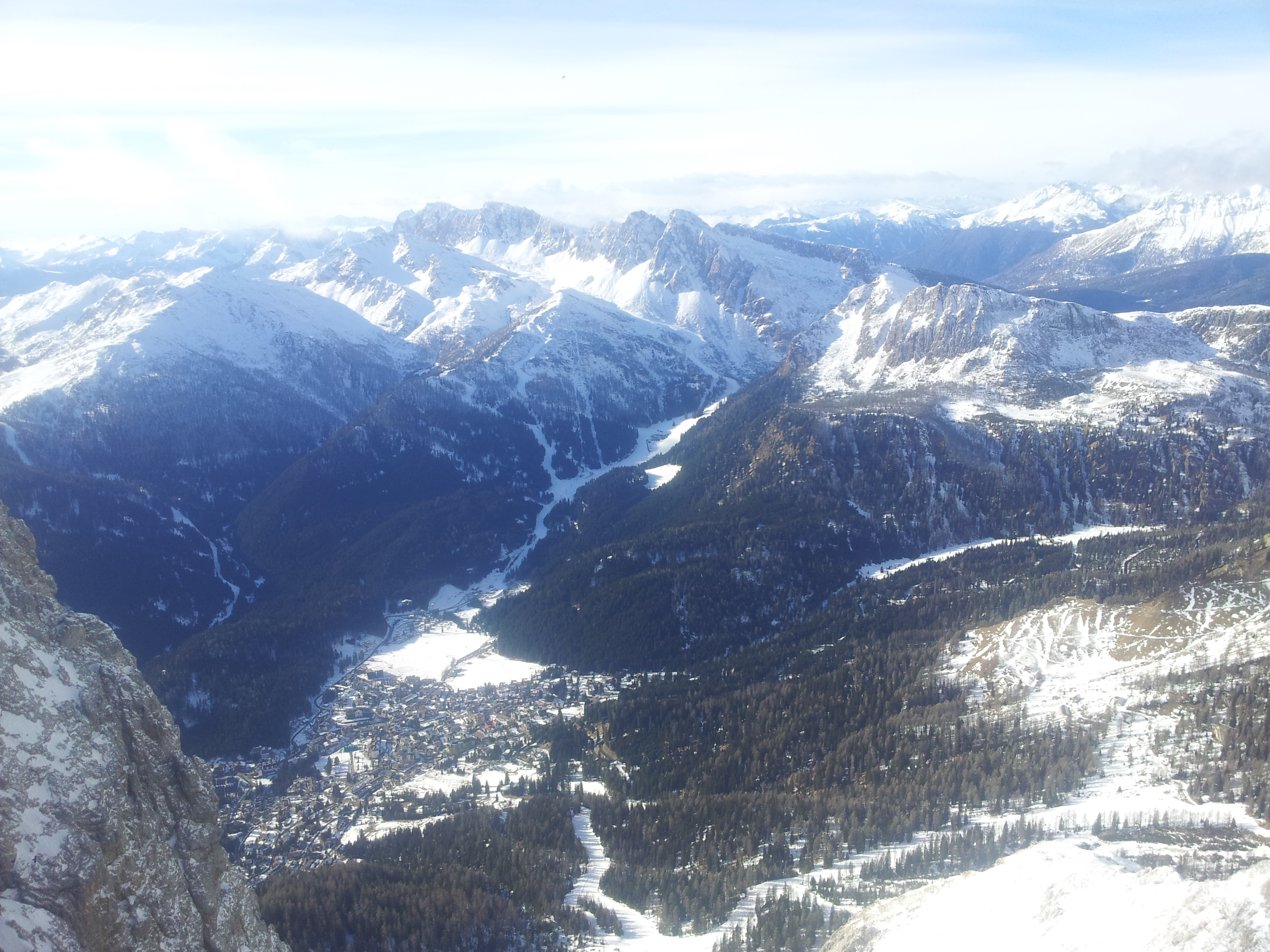 San Martino di Castrozza, small city in Italy from Funivia (2700m).